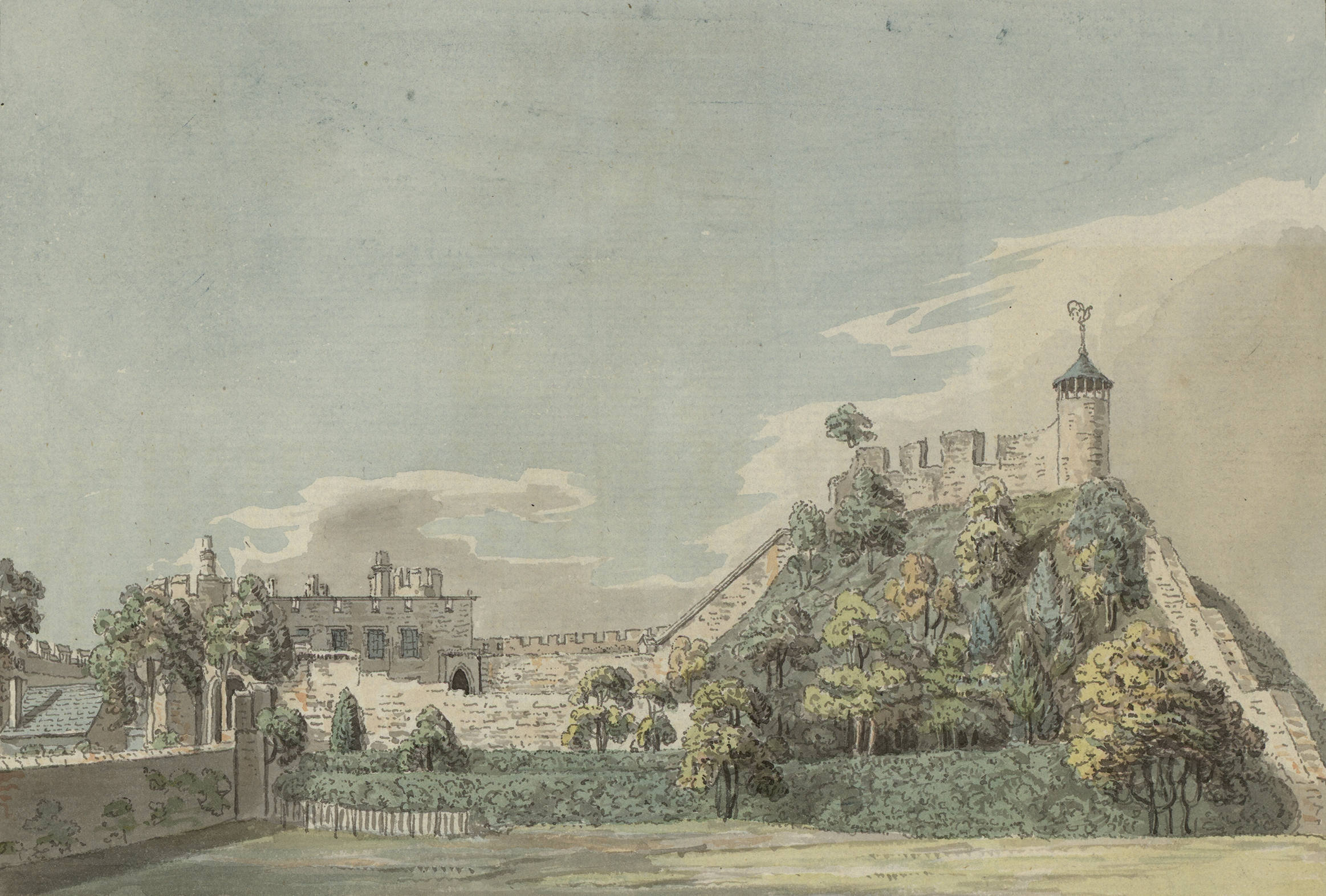 An image from a set of 8 extra-illustrated volumes of A tour in Wales by Thomas Pennant (1726-1798) that chronicle the three journeys he made through Wales between 1773 and 1776. These volumes are unique because they were compiled for Pennant's own library at Downing. This edition was produced in 1781. The volumes include a number of original drawings by Moses Griffiths, Ingleby and other well known artists of the period. Thomas Pennant (1726-1798)